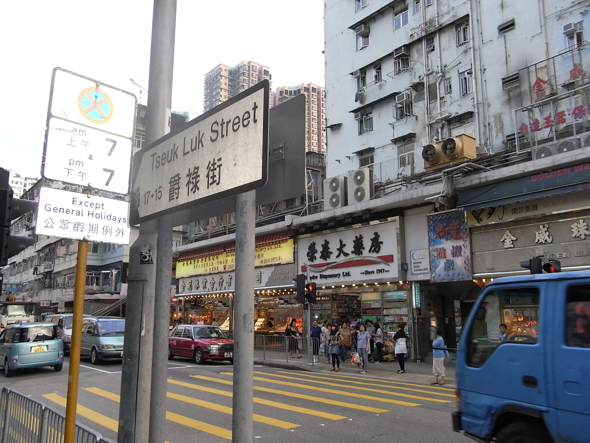 新蒲崗 爵祿街 新蒲崗大廈地鋪